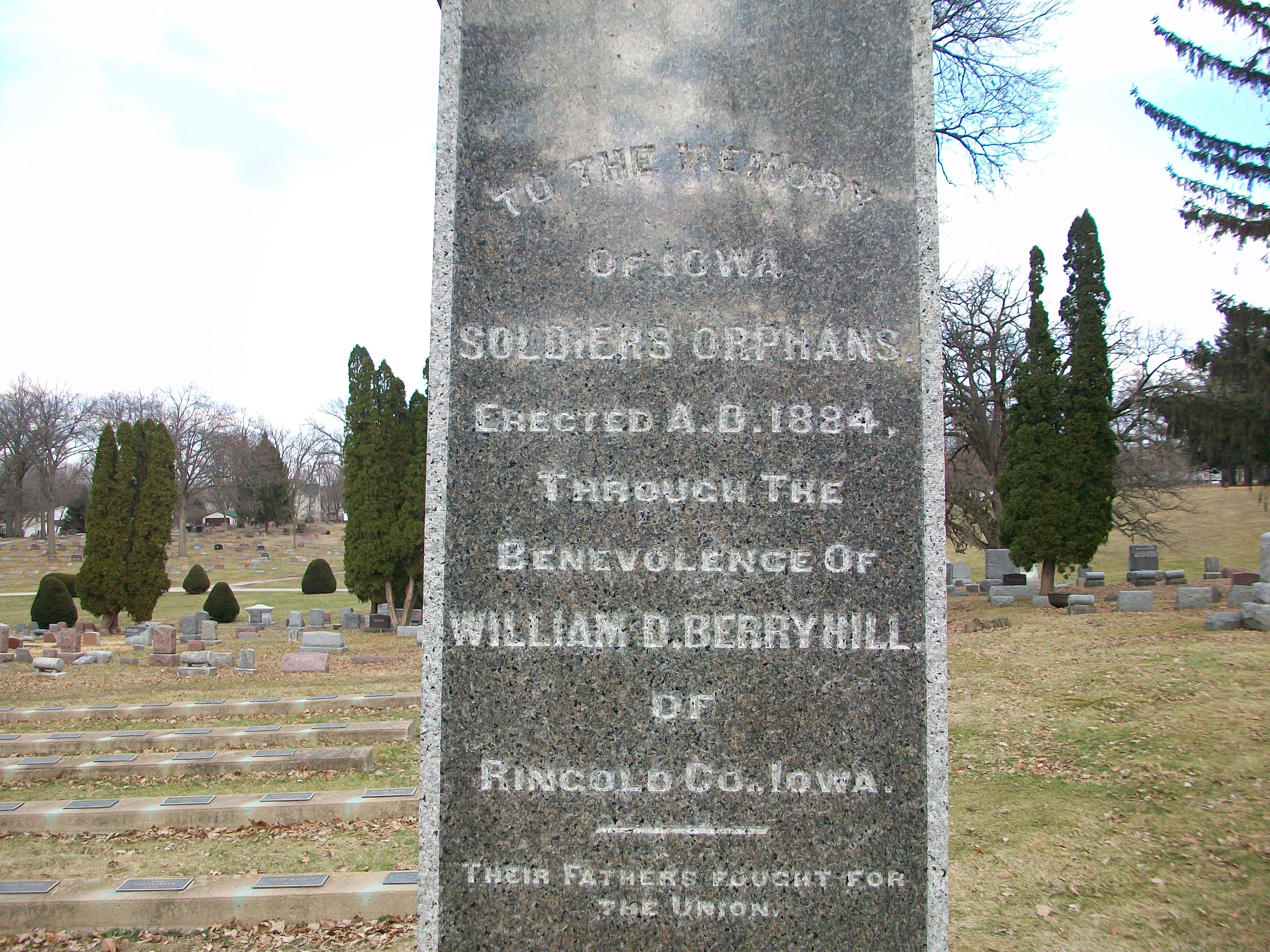 Monument of the orphan graves at the Oakdale Cemetery in Davenport, Iowa